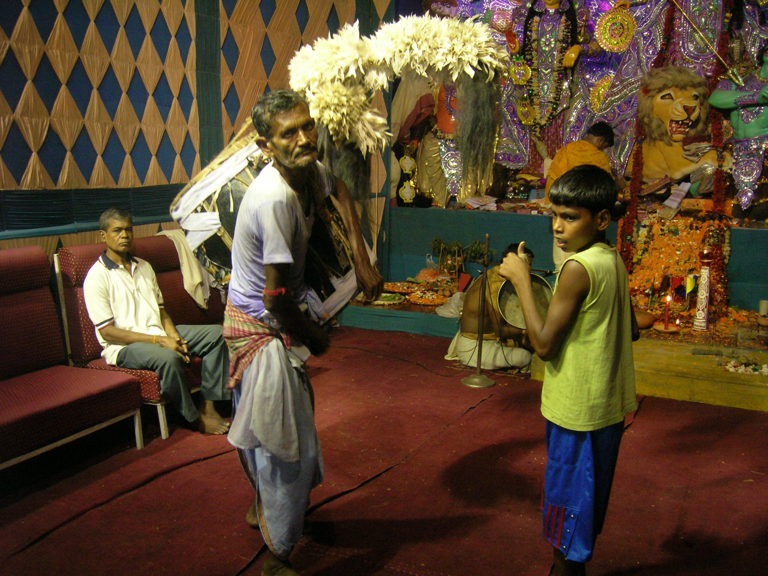 Dhaki at a South Kolkata Durga Puja pandal, 2010.